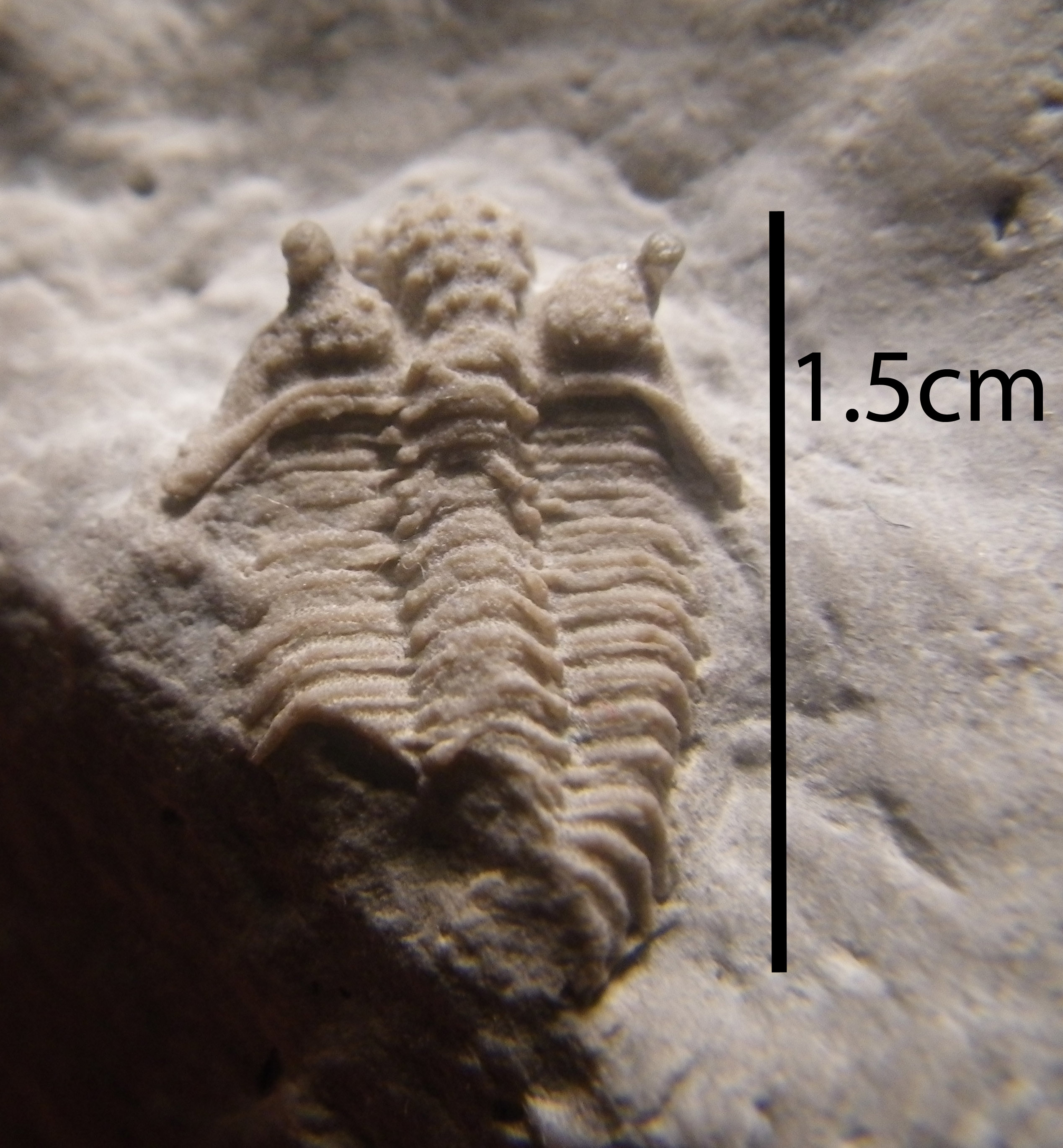 Internal mold of a nice sized Encrinurus trilobite from the Silurian Dolomite of Southeastern Wisconsin